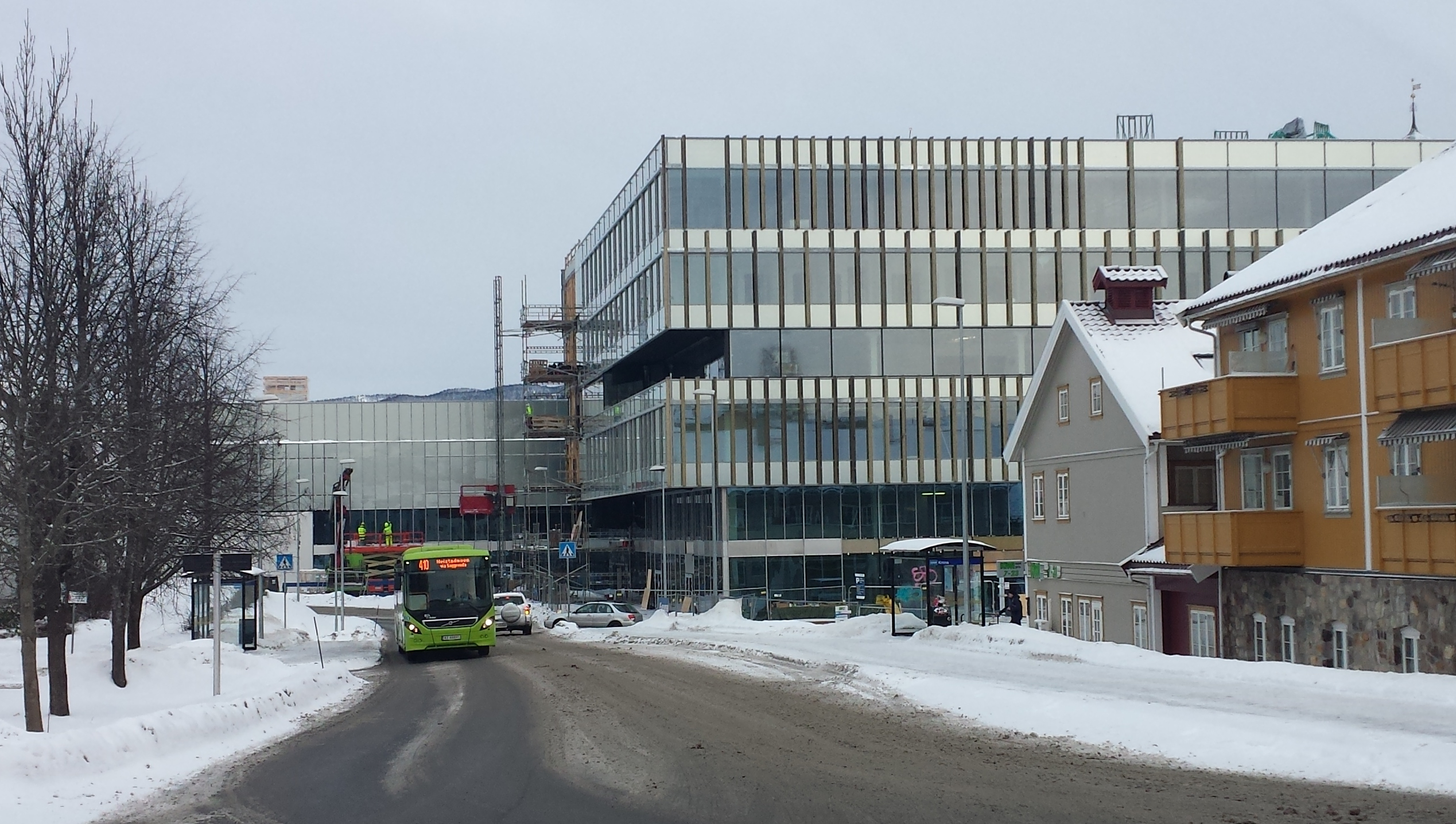 Krona - Kongsberg College and Concert houseNorsk bokmål: Krona Kongsberg Kunnskap Kulturpark